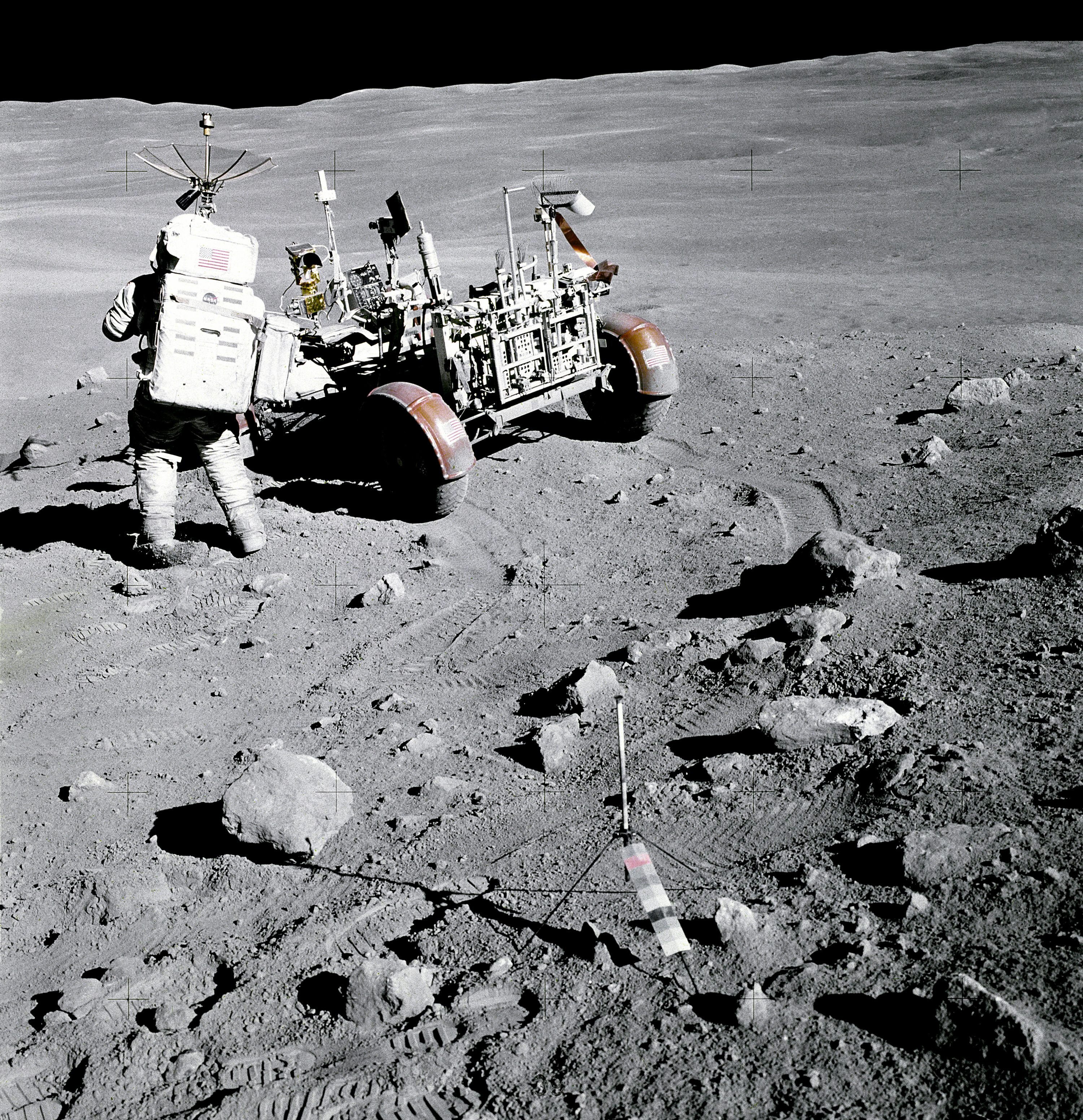 Apollo 16 astronaut Charles M. Duke Jr., pilot of the Lunar Module "Orion", stands near the Rover, Lunar Roving Vehicle (LRV) at Station no. 4, near Stone Mountain, during the second Apollo 16 extravehicular activity (EVA-2) at the Descartes landing site. Light rays from South Ray crater can be seen at upper left. The gnomon, which is used as a photographic reference to establish local vertical Sun angle, scale, and lunar color, is deployed in the center foreground. Note angularity of rocks in the area.